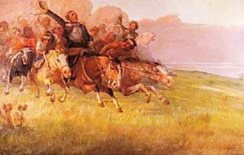 Begin of the Oriental Revolution, in the modern Uruguay.